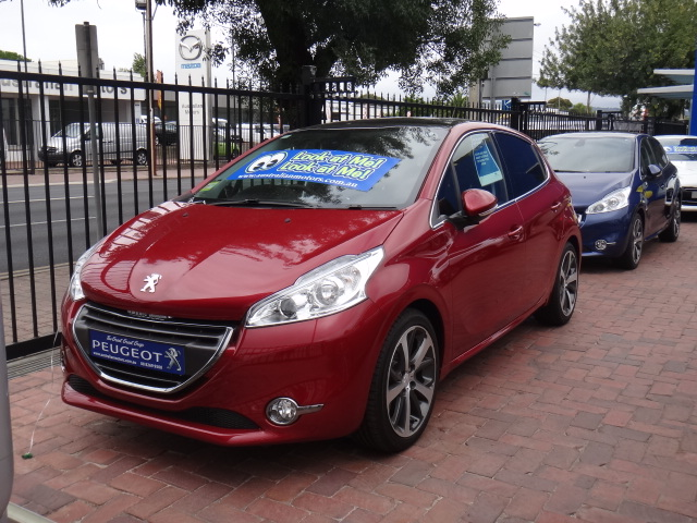 Until the all new Renault Clio arrives in the middle of the year, the 208 would have to be the best looking light car/supermini on the market right now! But, that is just my opinion!! Haha! I could definitely live with one of these!!